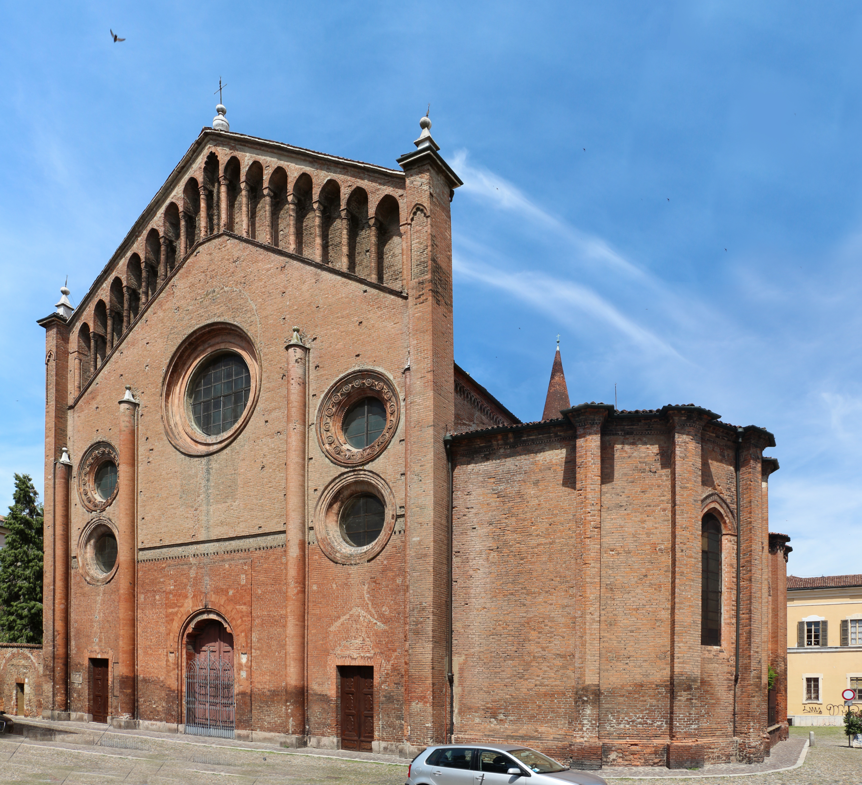 Buildings in Cremona